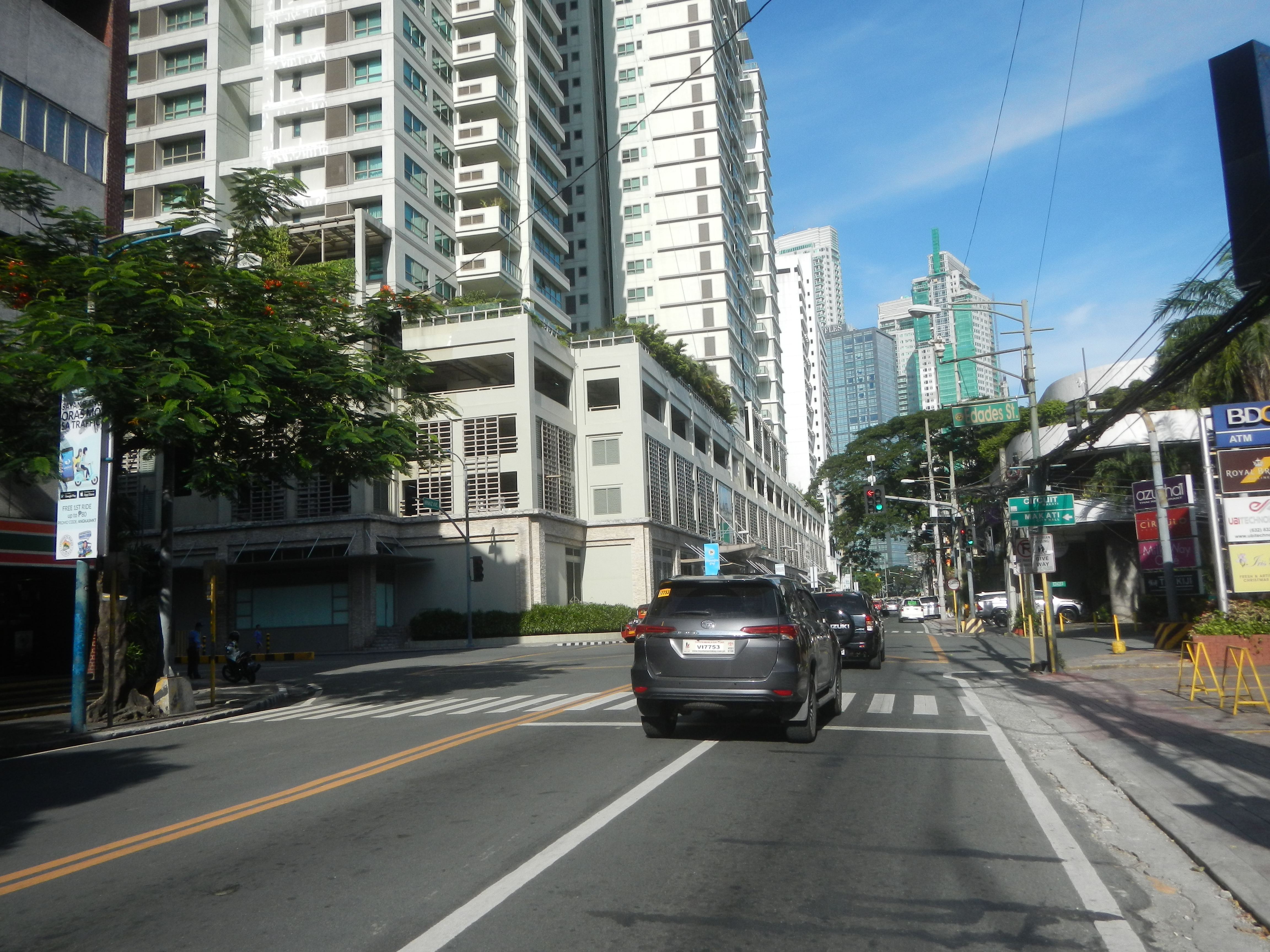 Chino Roces Avenue or Arnaiz Avenue The Residences at Greenbelt Ayala Land Gamboa Street Corinthian Plaza Paseo de Roxas Greenbelt Park (Ayala Center) Ayala Center Santo Niño de Paz Chapel Greenbelt (Ayala Center) Greenbelt's Organic Garden (Ayala Center) Tarragon Basil fields in the Philippines from and towards Ayala MRT Station Ayala MRT Station 14°32'57"N 121°1'40"E Makati Central Business List of barangays of Metro Manila, Legislative districts of Makati Barangay San Lorenzo 14°33'4"N 121°1'13"E Makati City (Note: Judge Florentino Floro, the owner, to repeat, Donor Florentino Floro of all these photos hereby donate gratuitously, freely and unconditionally all these photos to and for Wikimedia Commons, exclusively, for public use of the public domain, and again without any condition whatsoever).